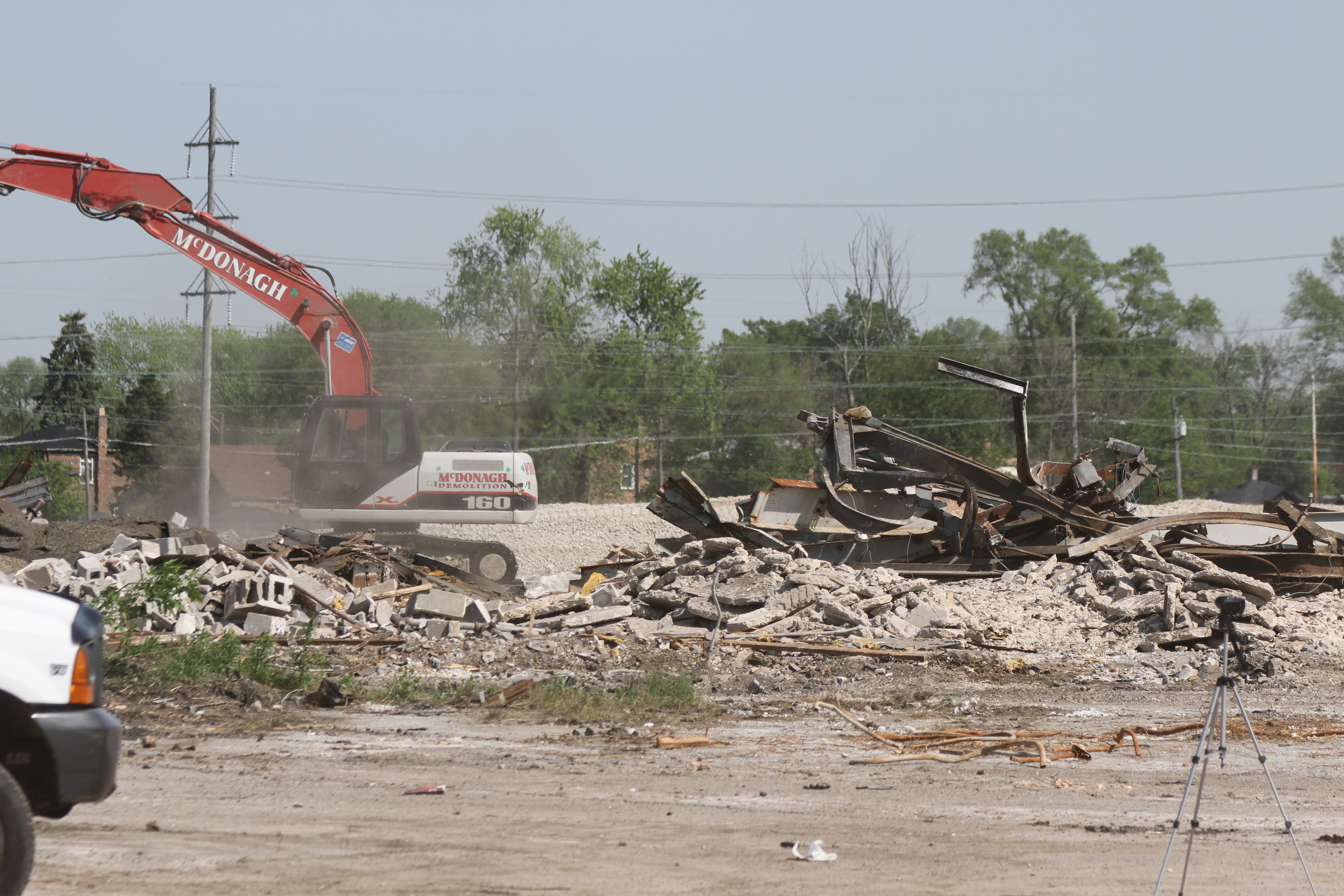 The twisted I-beams are all that remain of Dixie Square. I took this photo 30 minutes after this final portion came down.